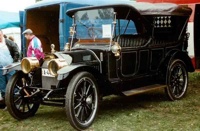 McLaughlin Model 41 Touring 1912